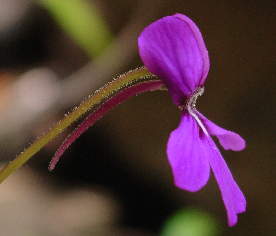 Pinguicula moranensis flower profile. Photo taken in situ near Valle de Bravo, Mexico State, Mexico